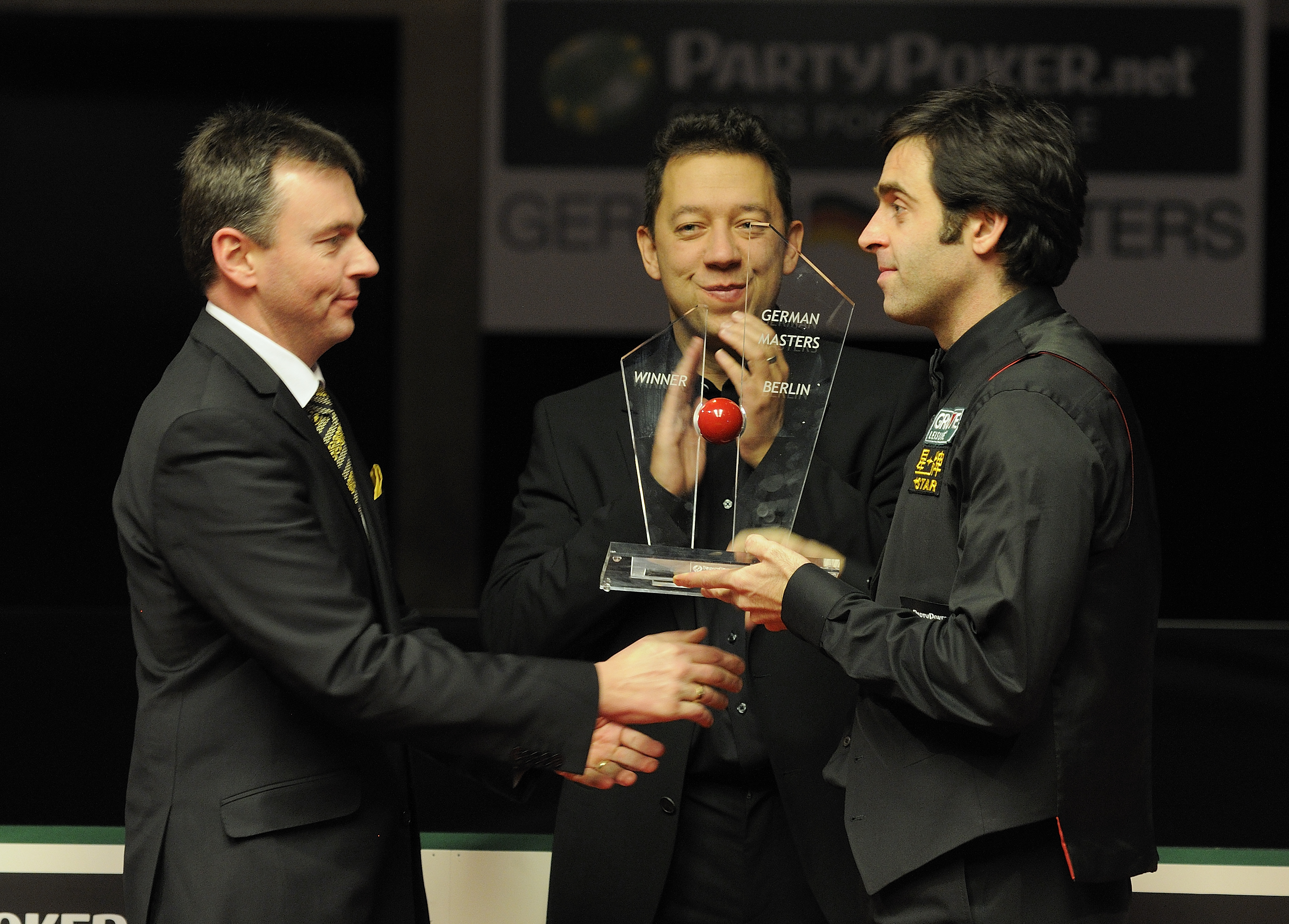 Picture taken in Berlin during the Snooker German Masters in 2011. Ronnie O’Sullivan.